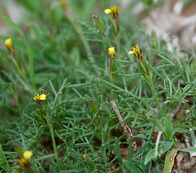 Glossocardia bosvallia (syn. Glossocardia linearifolia)- Pithari, Seri in Hindi, Parpataka in Kannada, Patharasuva in Marathi, Parapalanamu in Telugu- in Keesara, Rangareddy district, Andhra Pradesh, India.